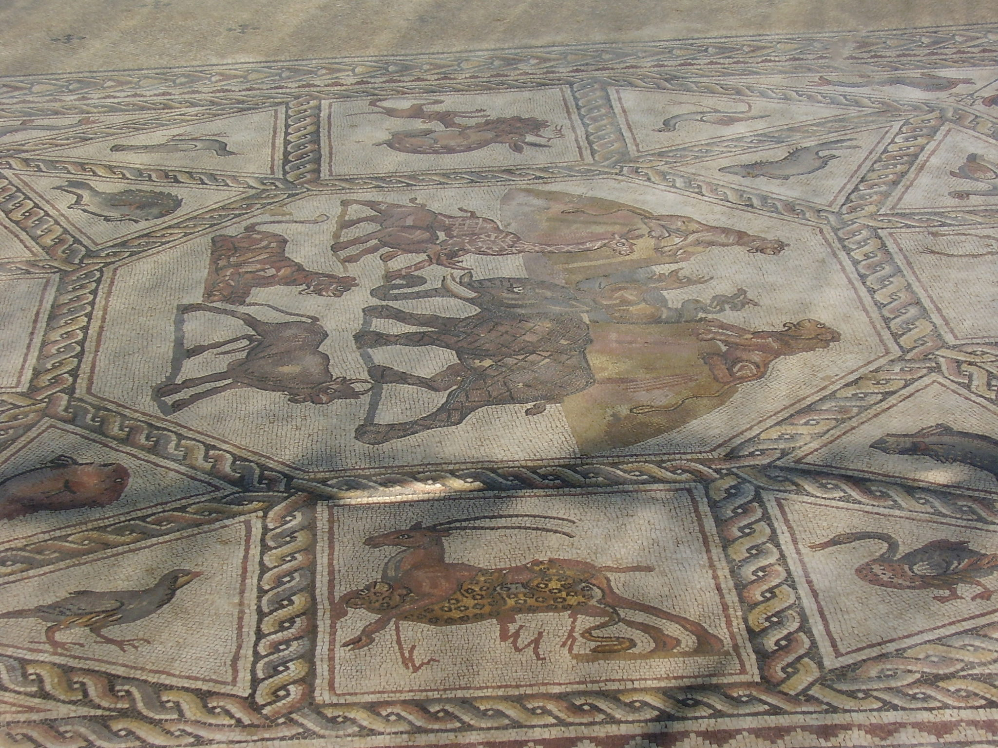 mosaic in lod פסיפס לוד